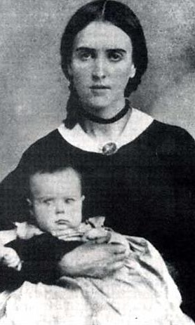 Photograph of Josepha Carson, Kit Carson's third and last wife. Correctly poistions horizontal version of existing file